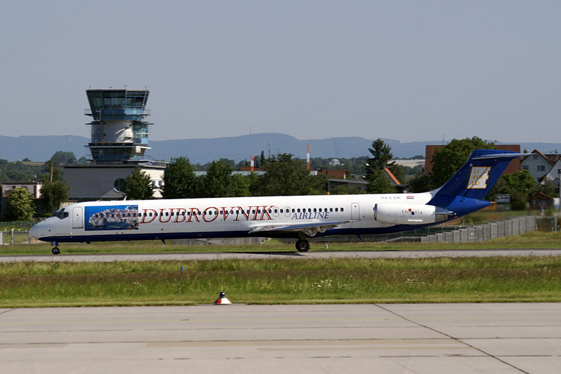 Dubrovnik Airline McDonnell Douglas MD-82 9A-CDC C/N 49112/1068